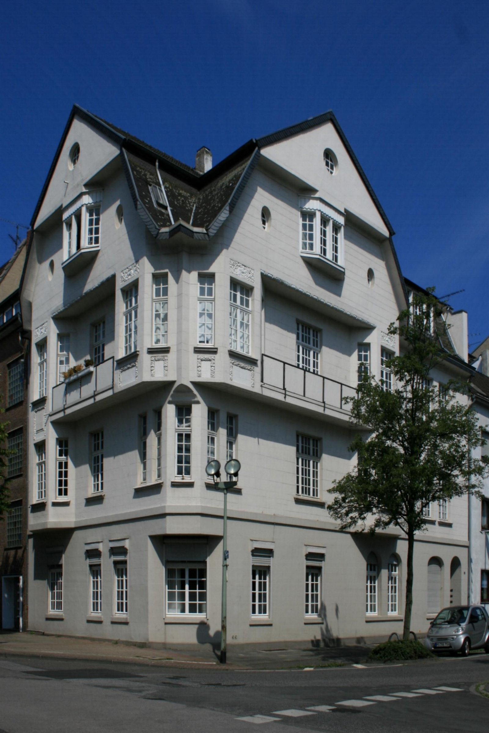 Cultural heritage monument No. R 002 in Mönchengladbach